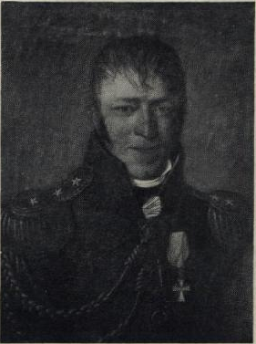 Portrait of 'Georg Frederik von Krogh' (Q4585504) by Jacob Munch. The painting was exhibited at the exhibition Trondhjems 900-årsjubileum in 1897.